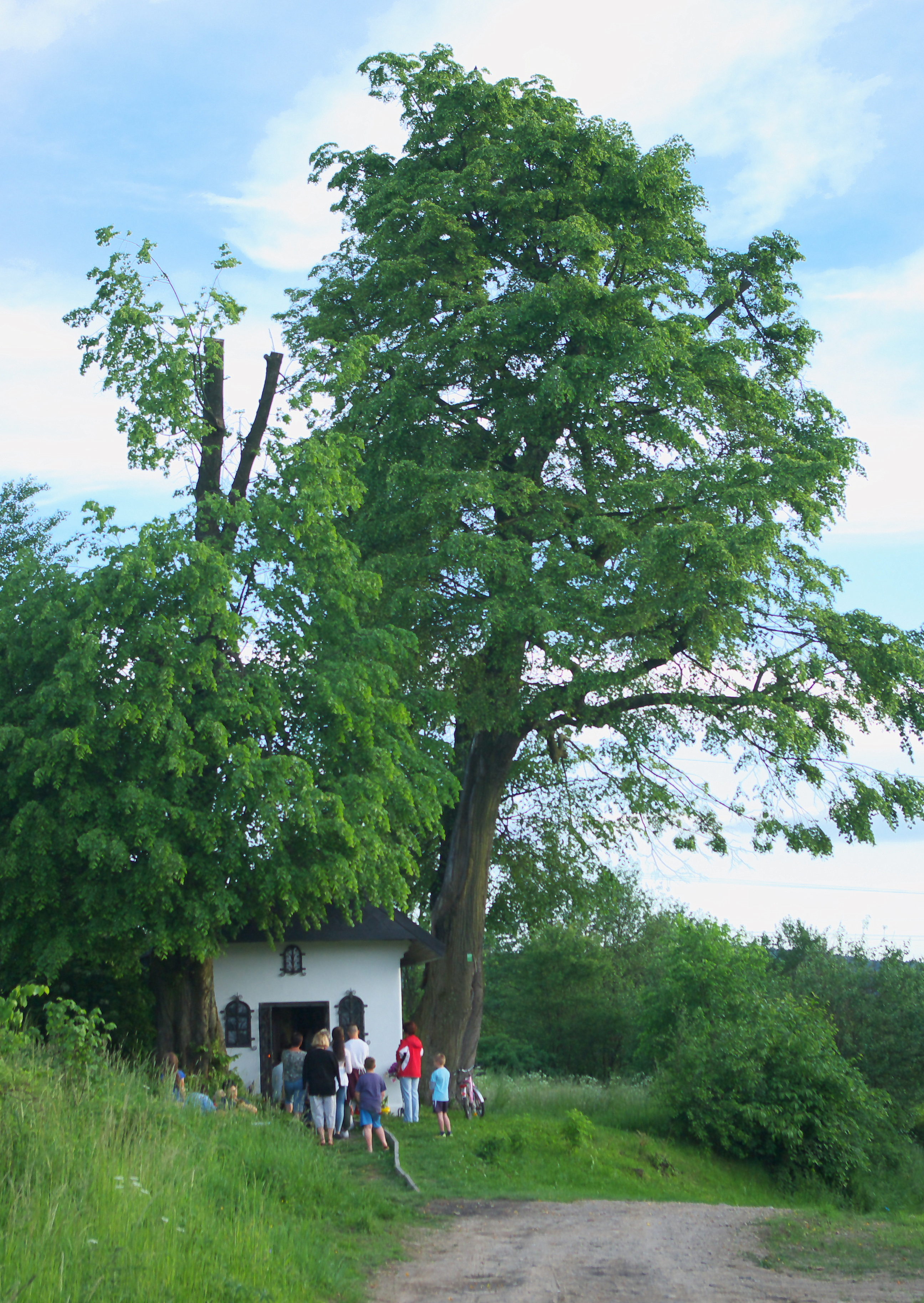 May devotions to the Blessed Virgin Mary by wayside shrine at Płowiecka Street in Sanok (2016)